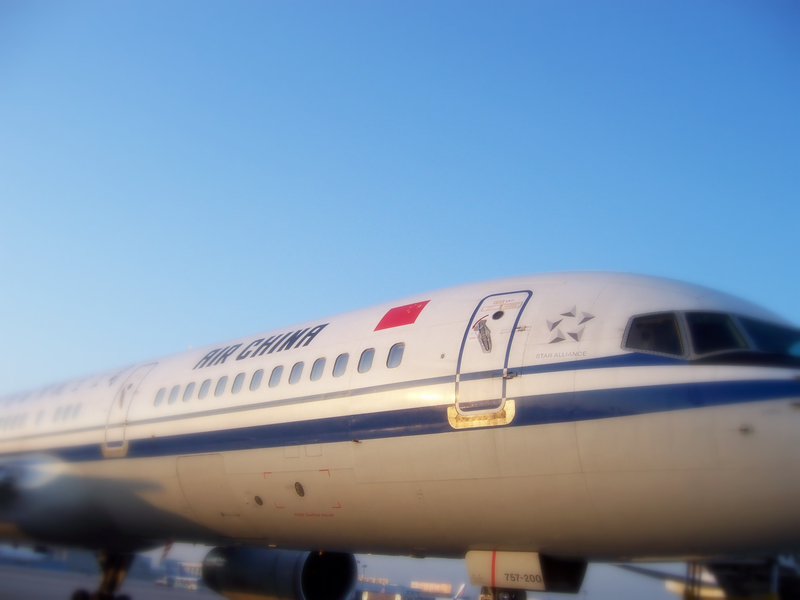 Air China Boeing 757-200 with the new Star Alliance logo, seen at Beijing Capital International Airport in December, 2007, shortly before its formal entry to the Alliance.